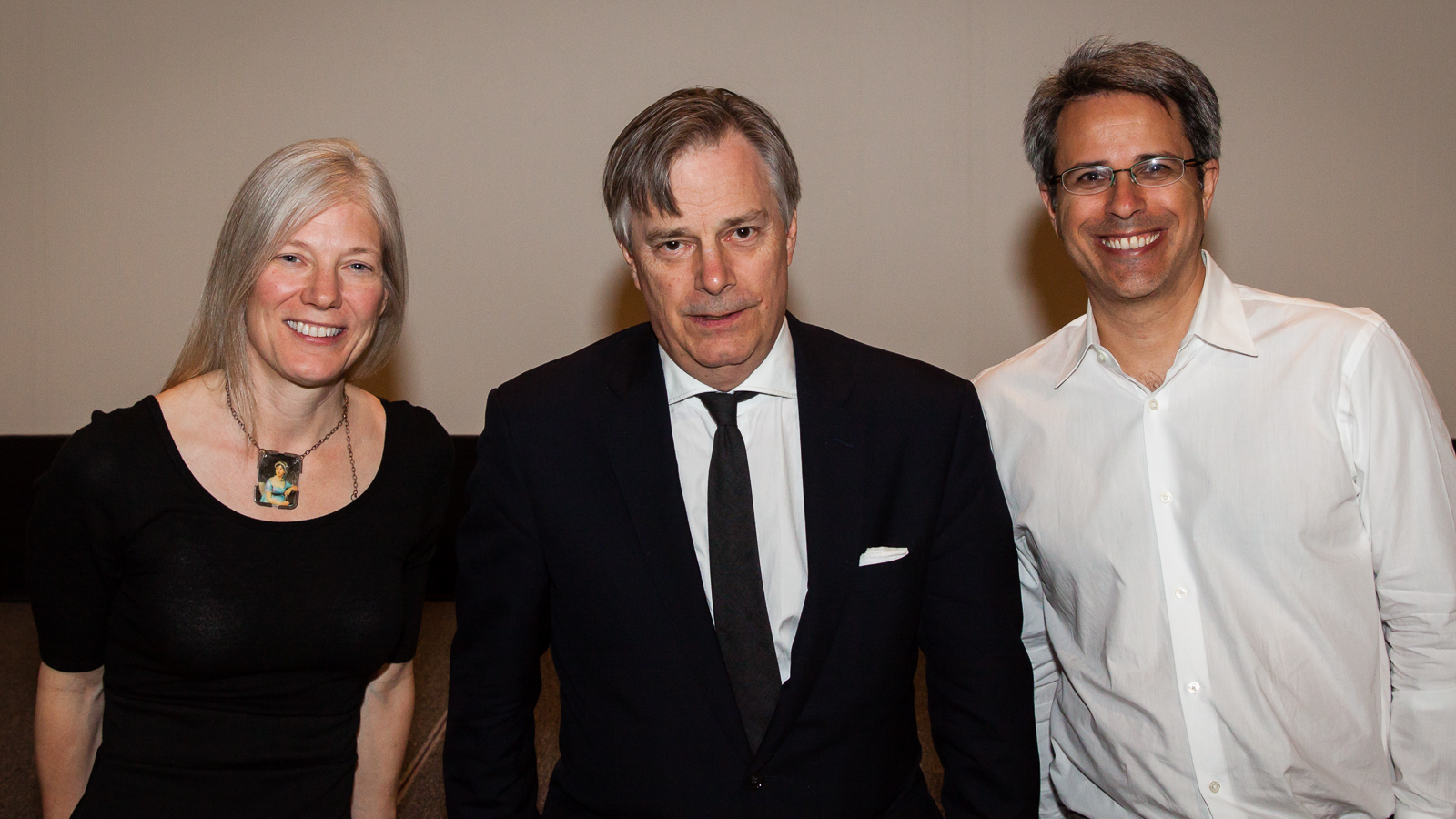 Department of English faculty Devoney Looser and Kevin Sandler moderated a conversation with writer-director Whit Stillman after a screening of his 1990 film Metropolitan.